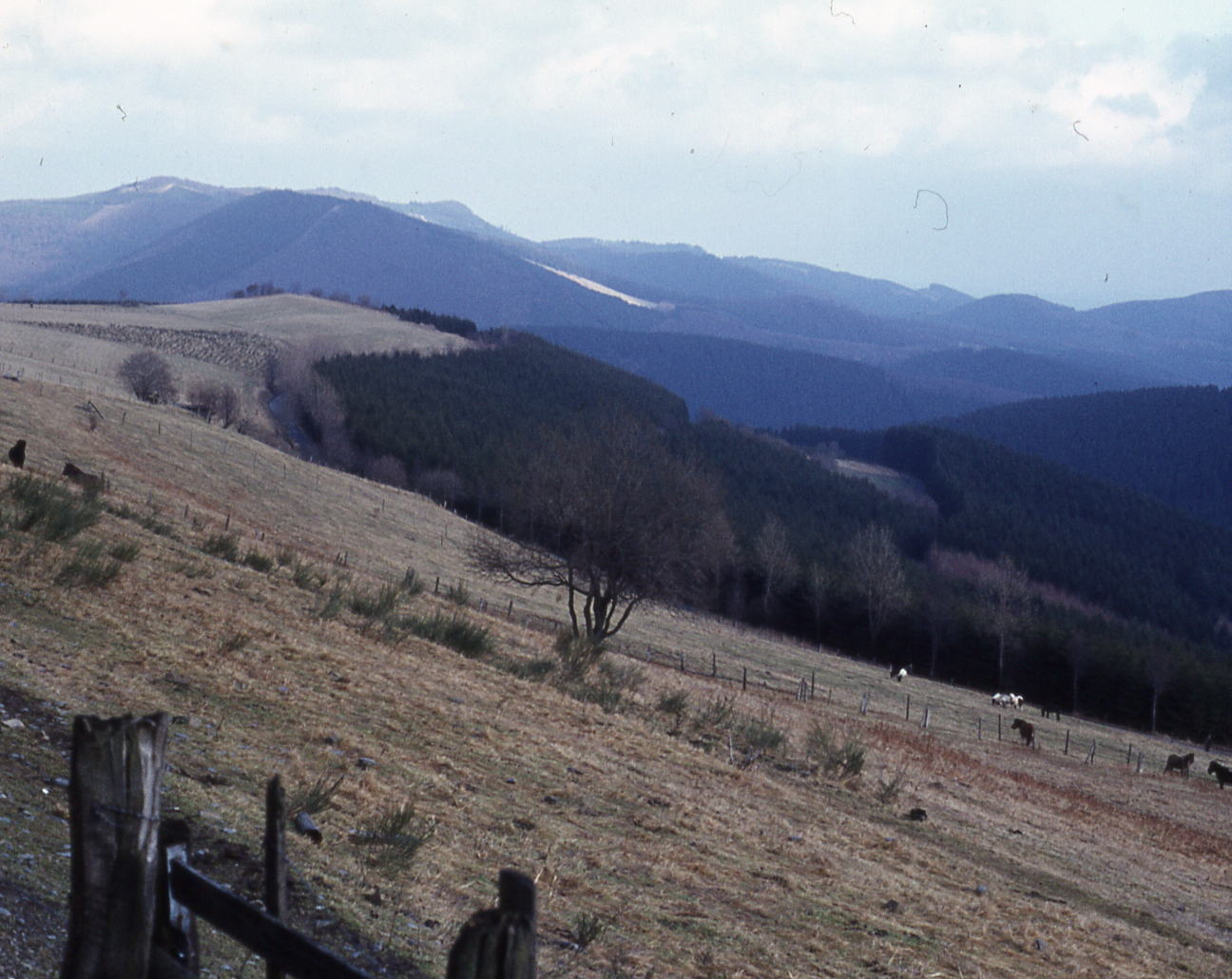 Winterberg, Schmantel Hill and Orke Valley, Germany.